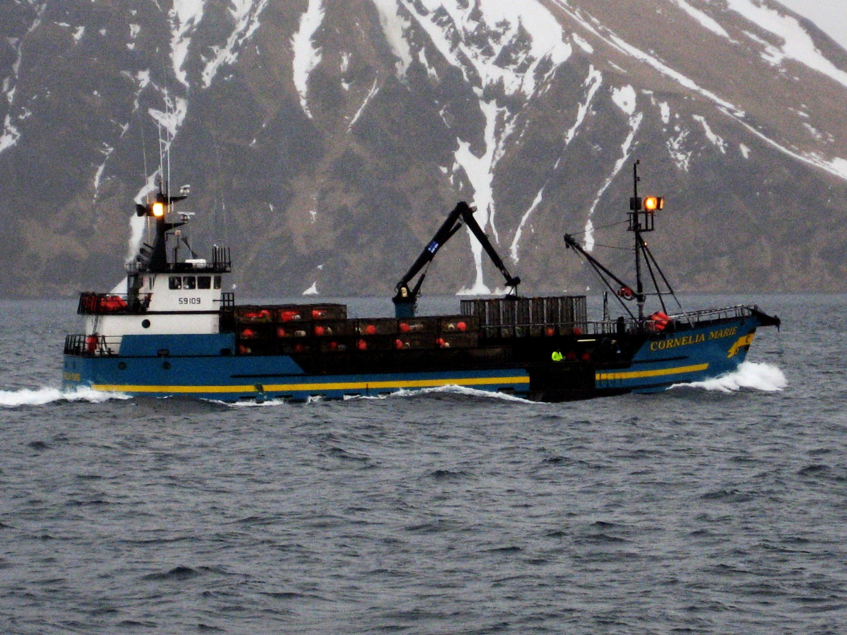 Fishing vessel with crab pots, Alaska Photographer: Michael Theberge, 2nd Mate Coastal Merchant.